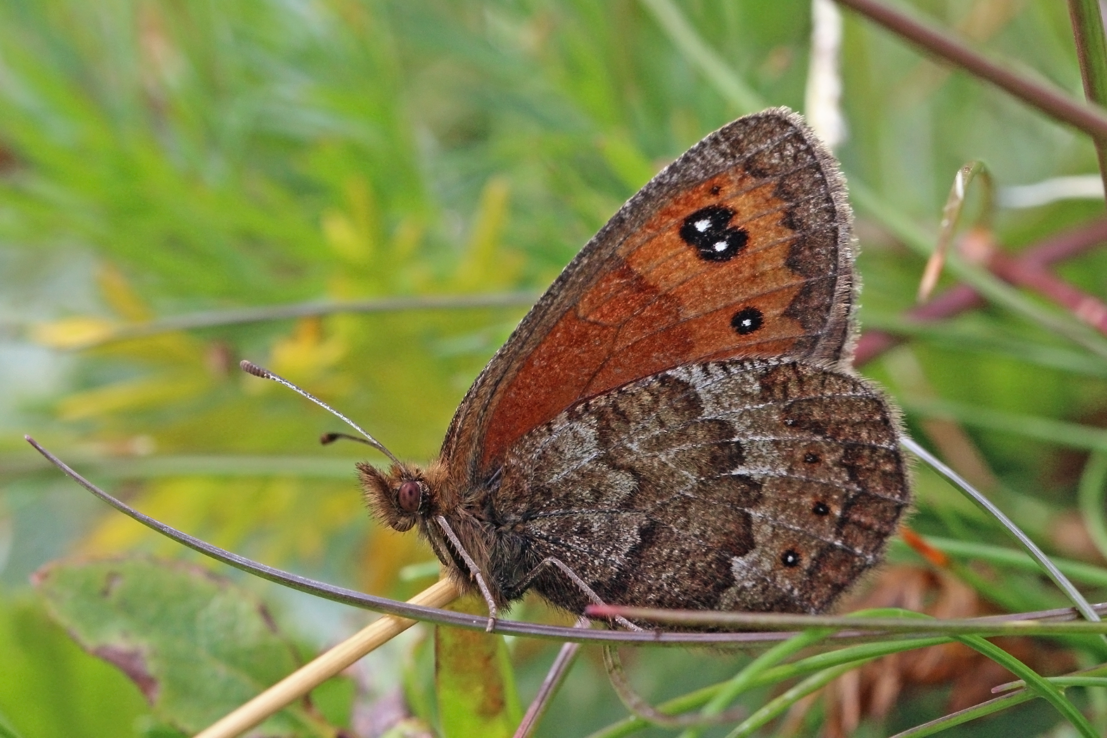 Nicholl's ringlet (Erebia rhodopensis), Yastrebets, Rila Mountains, Bulgaria